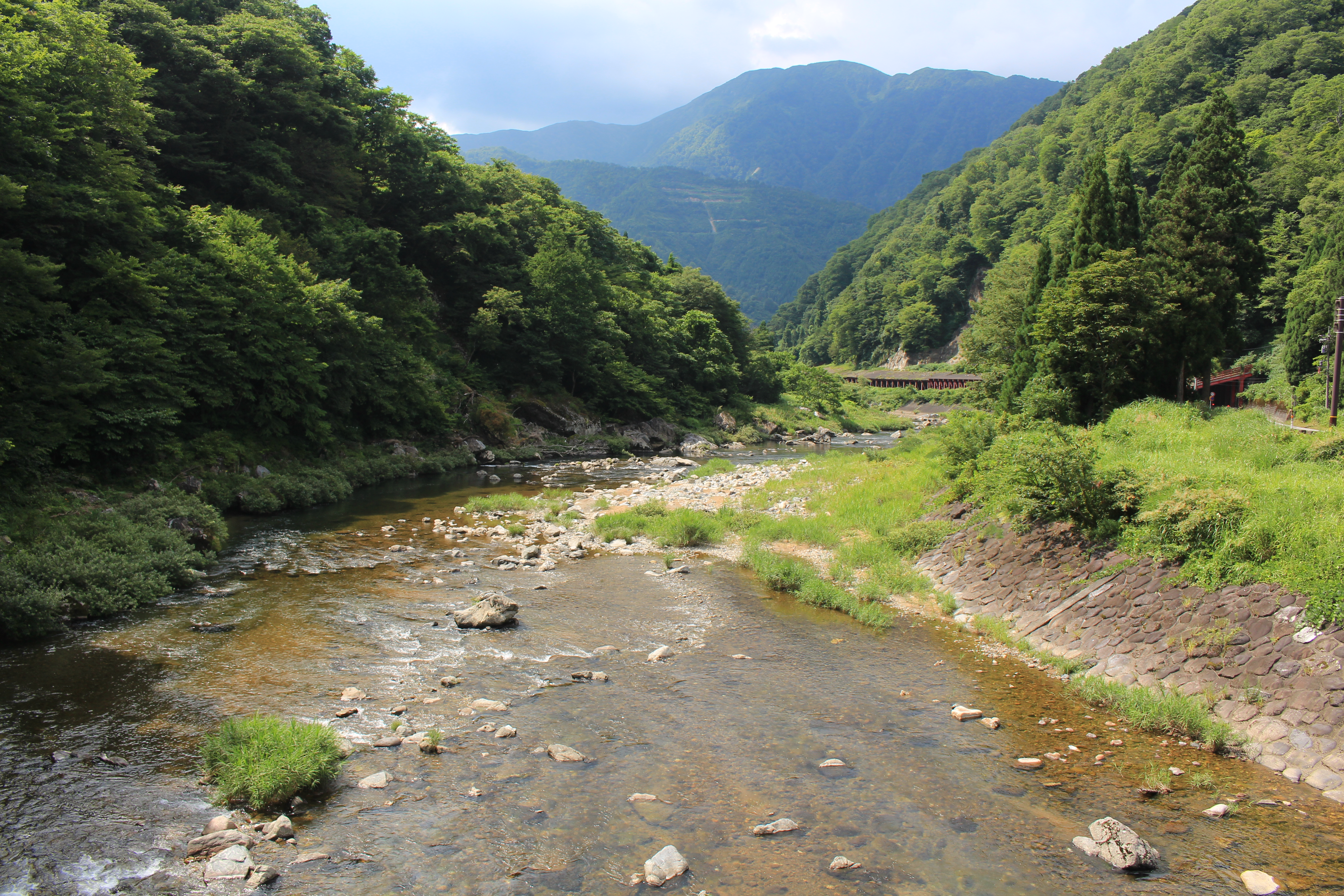 Downstream of Kuzuryu River seen from Tando Bridge of Fukui Prefectural Road Route 174 in Shimoyama, Ono, Fukui prefecture, Japan.